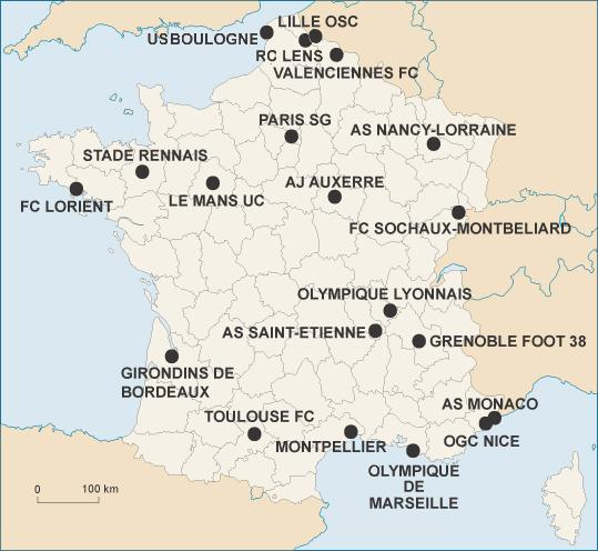 France ligue 1 map